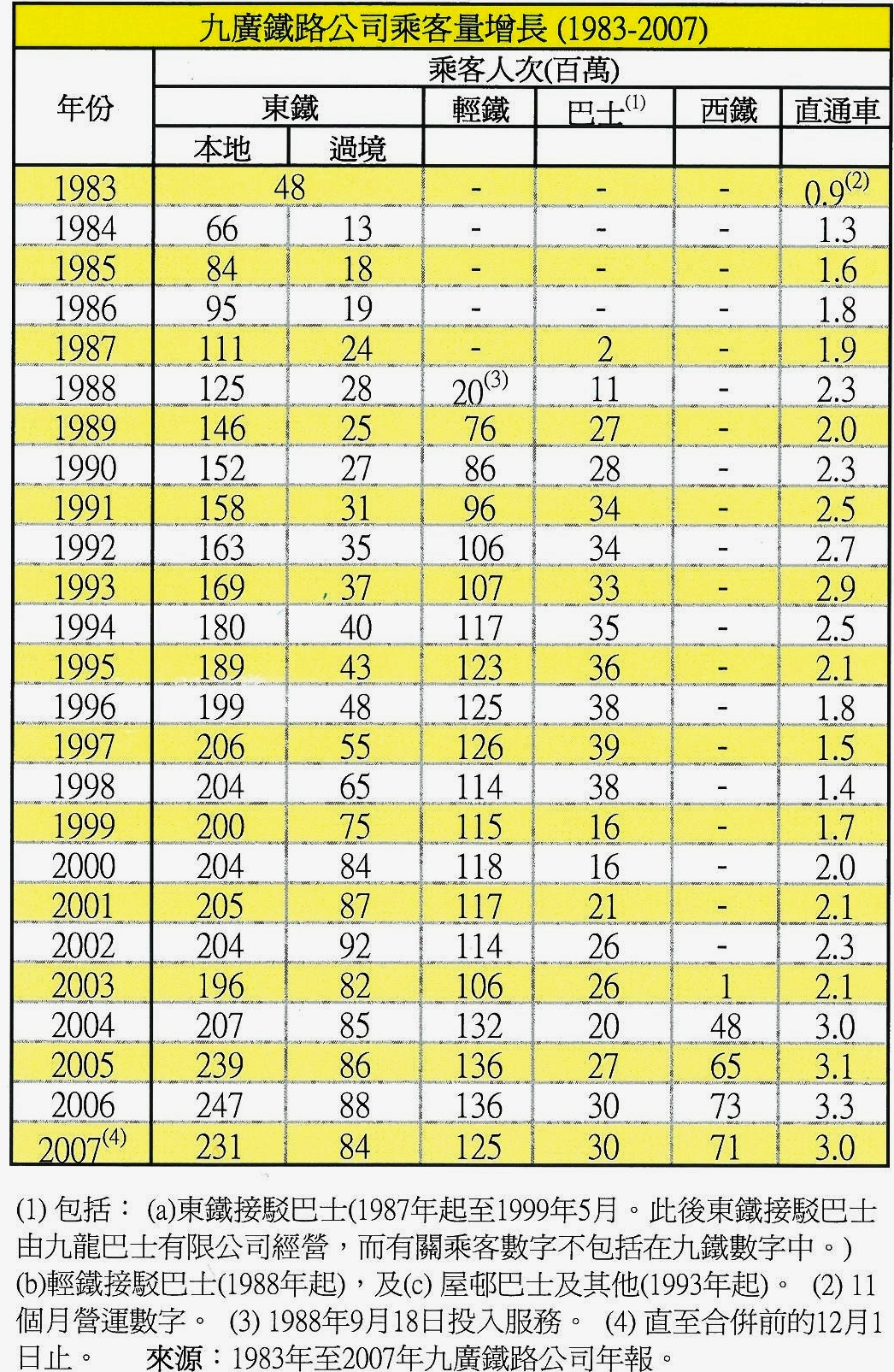 KCRC passenger growth 1983-2007